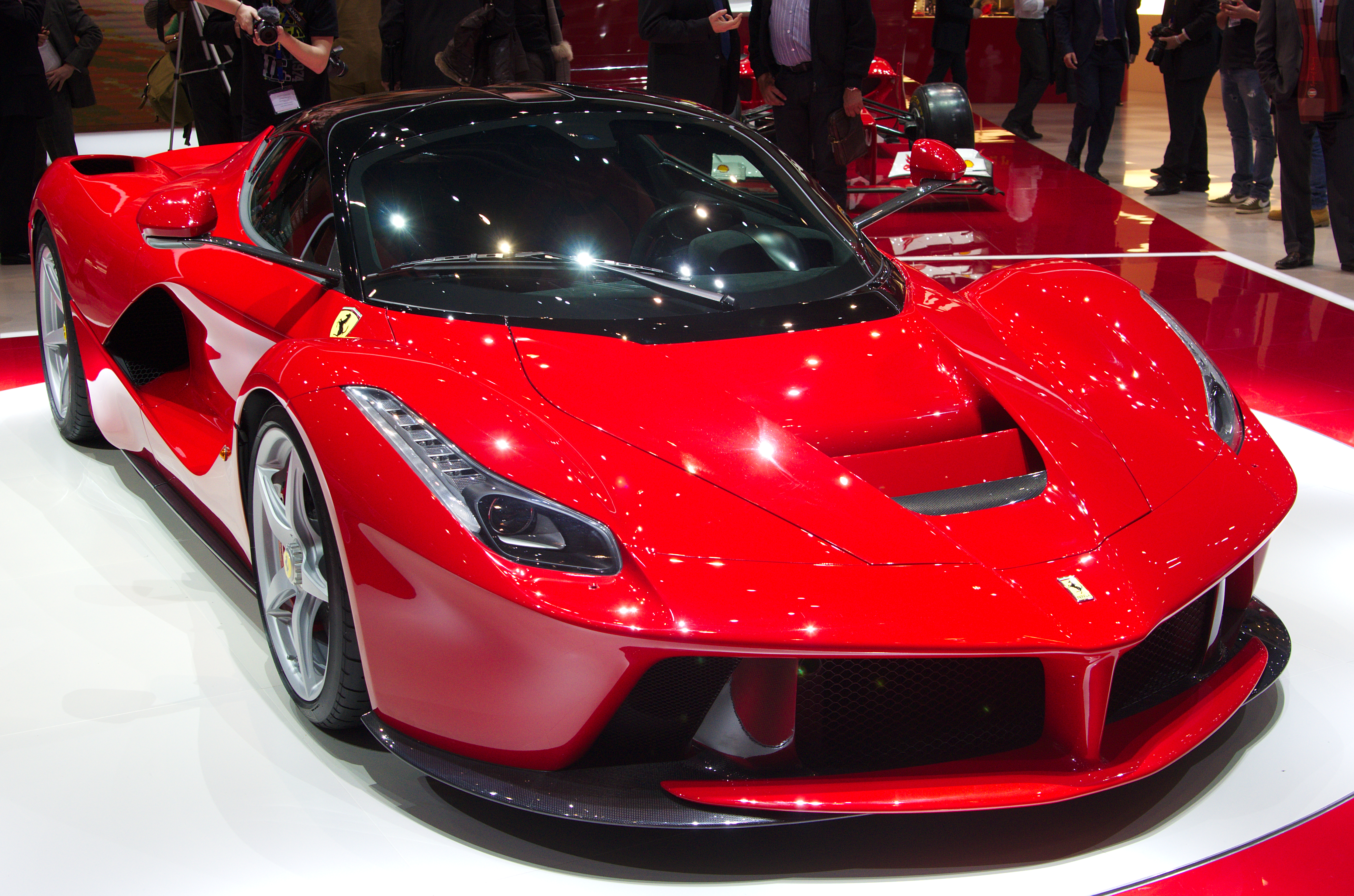 Geneva MotorShow 2013 - Ferrari LaFerrari front left view